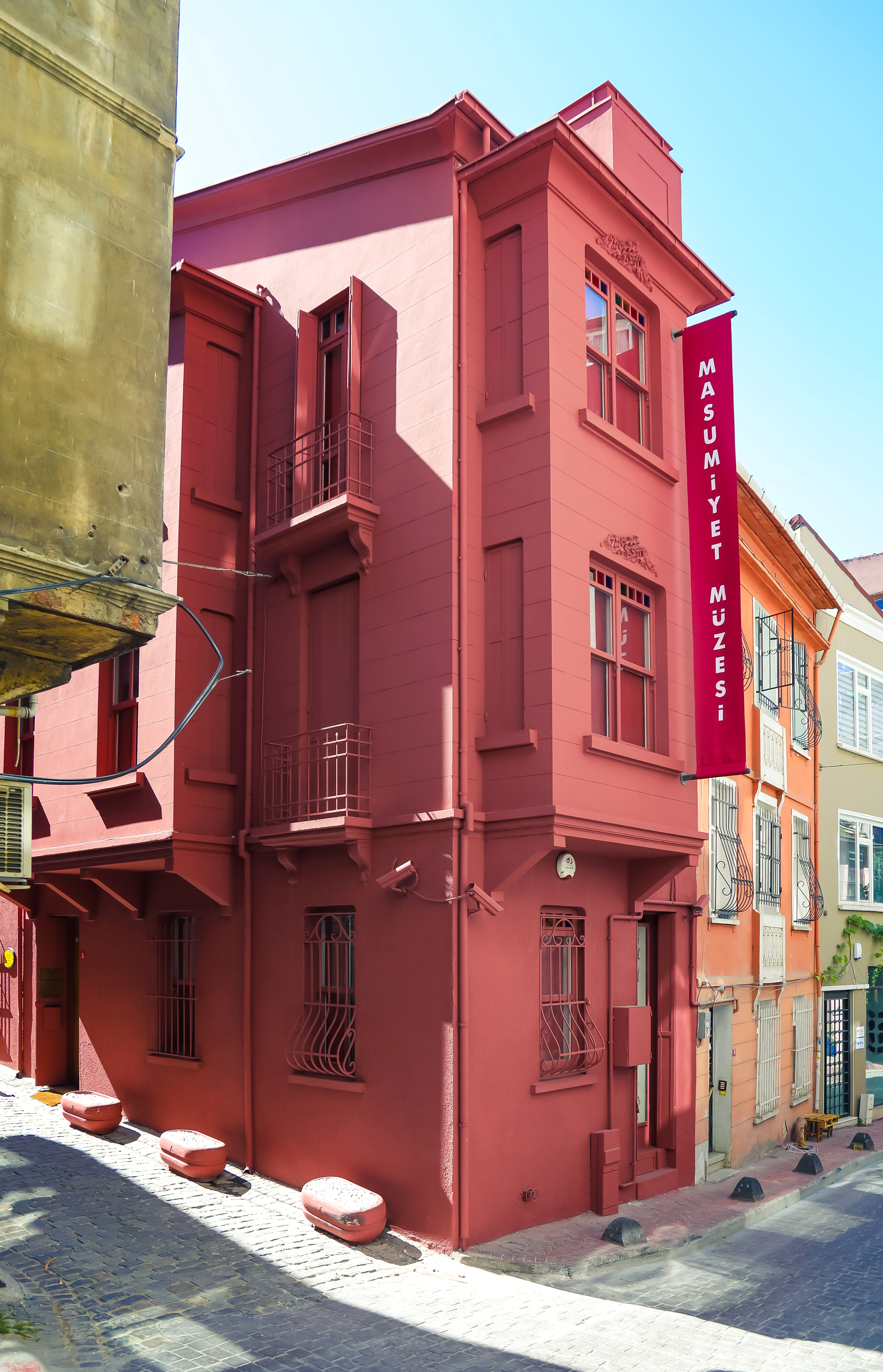 The Museum of Innocence.